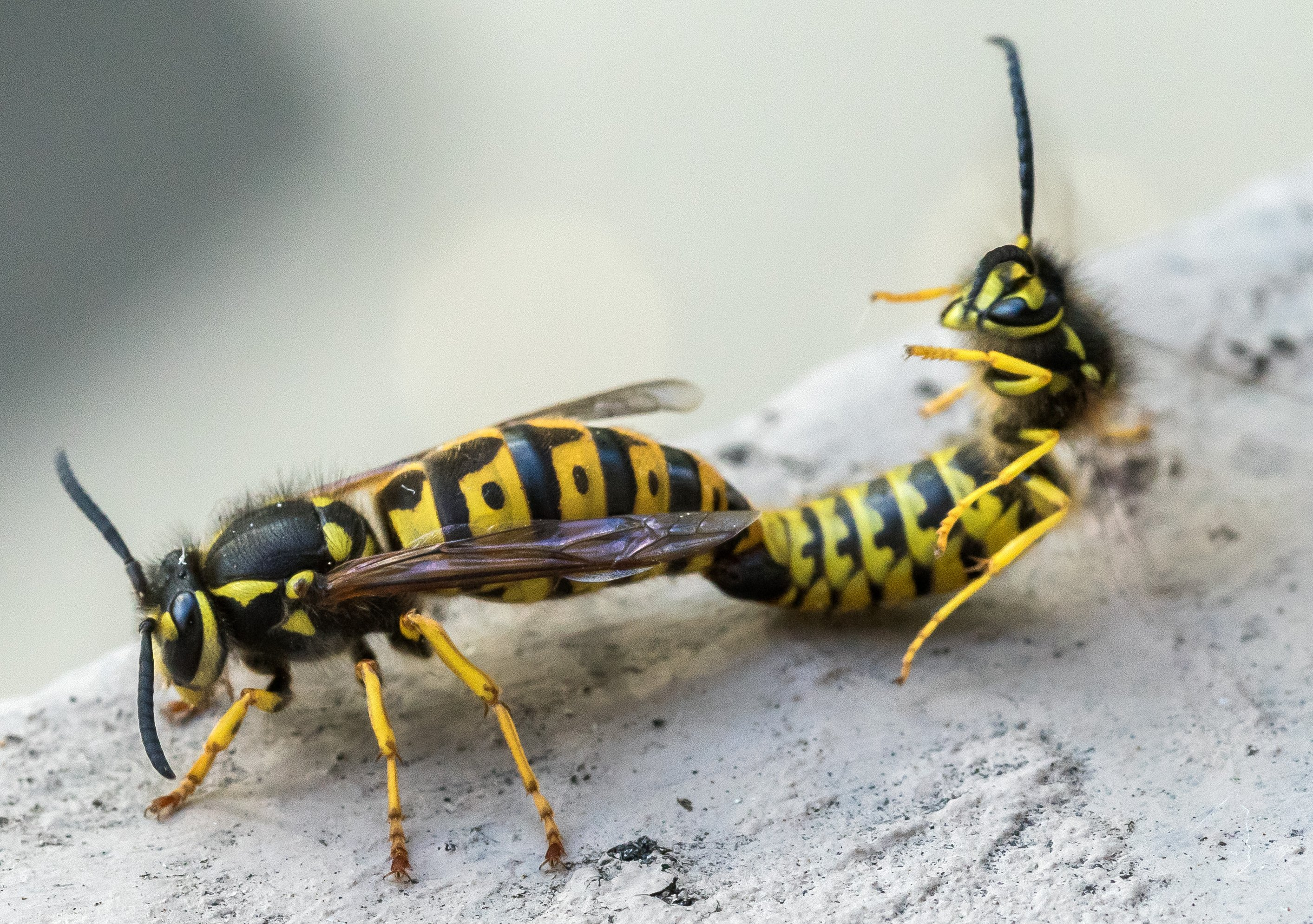 Queen and drone of Vespula germanica mating.